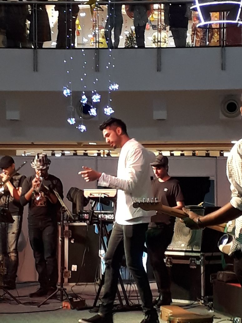 In a concert at The Forum Vijaya